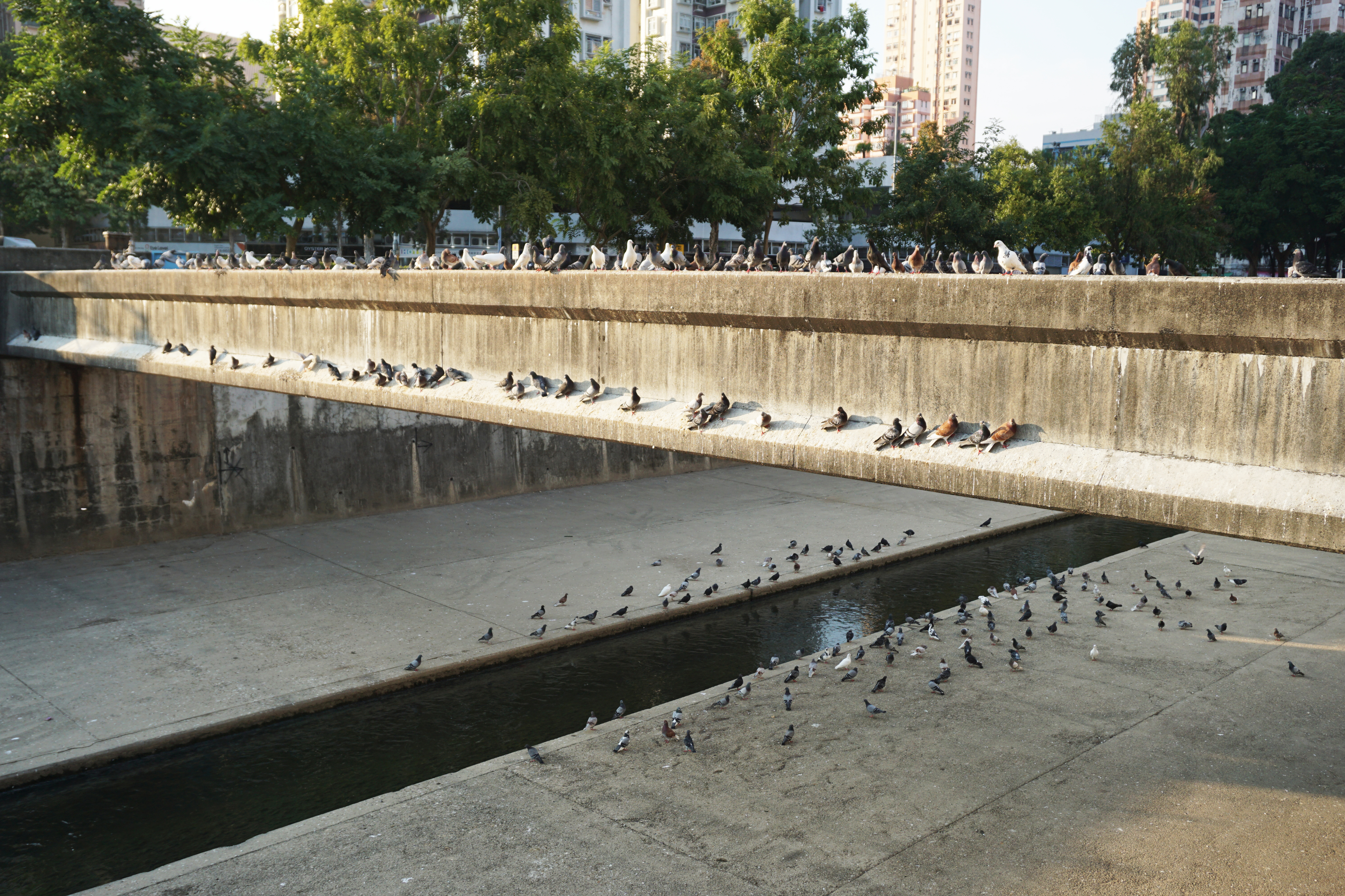 Pigeons near the junction of Ma Tin Road and Ma Tong Road, Yuen Long, Hong Kong.